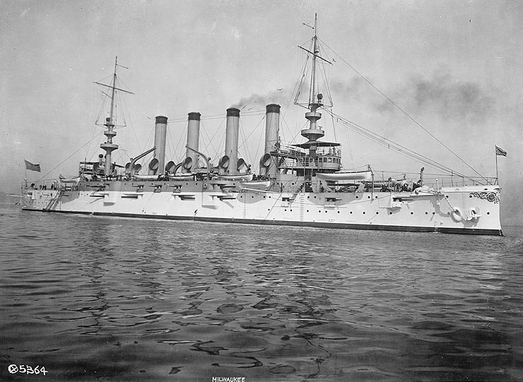 United States Navy armored cruiser USS Milwaukee (C-21) Original caption: “Photo # NH 63592 USS Milwaukee (Cruiser # 21), photographed circa 1906-1908” — removed caption